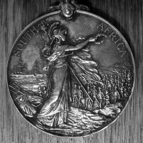 Queen's South Africa Medal 1900 reverse